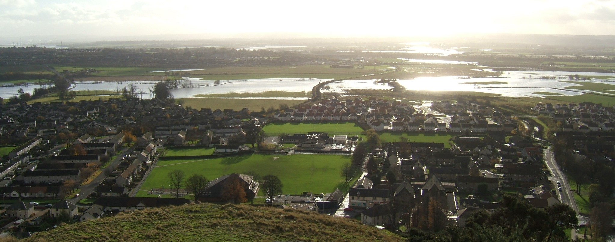 River Devon in flood near Menstrie, Clackmannanshire, 20th November 2009 following heavy overnight rain, photographed from southern slopes of Myreton Hill. The flood had begun to recede when the photograph was taken at 12:11h GMT.